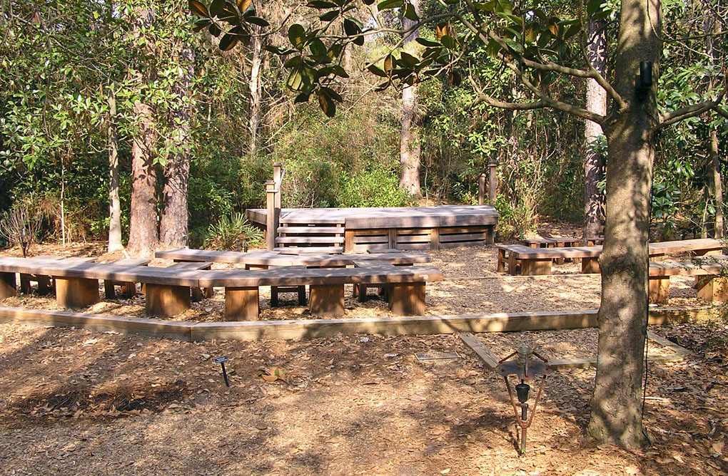 The Kennedy Outdoor Classroom on the grounds of Bland Cottage at Georgia Southern Botanical Garden a part of Georgia Southern University in Statesboro, Georgia. Photograph taken by Richard Chambers on March 11, 2007 while sauntering about the grounds looking for appropriate photos to put into Wikipedia for the Georgia Southern Botanical Garden topic.